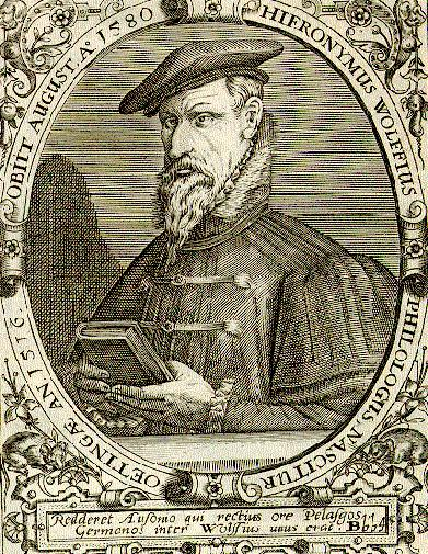 Portrait of german historian Hieronymus Wolf